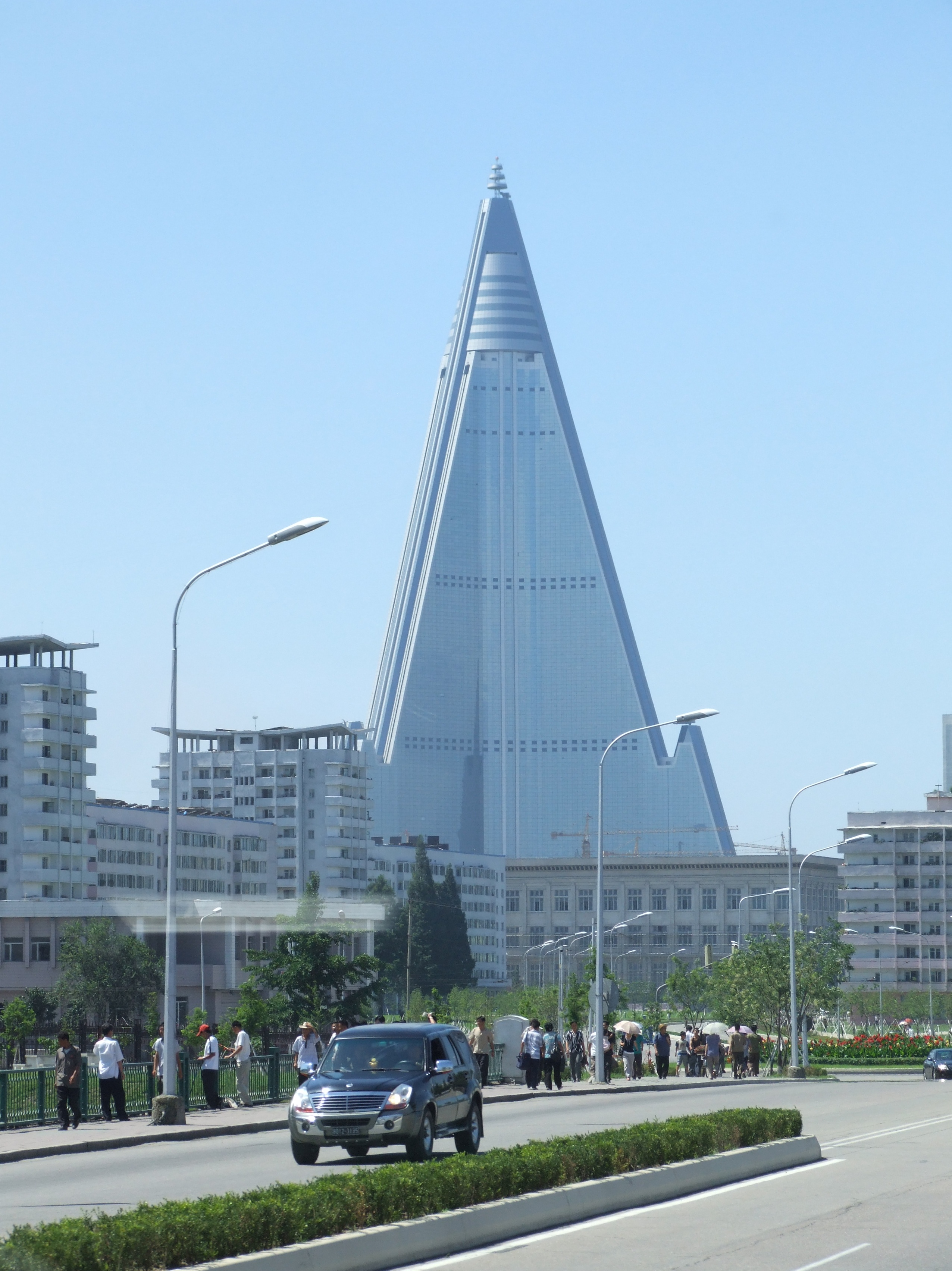 Ryugyong Hotel, Pyongyang